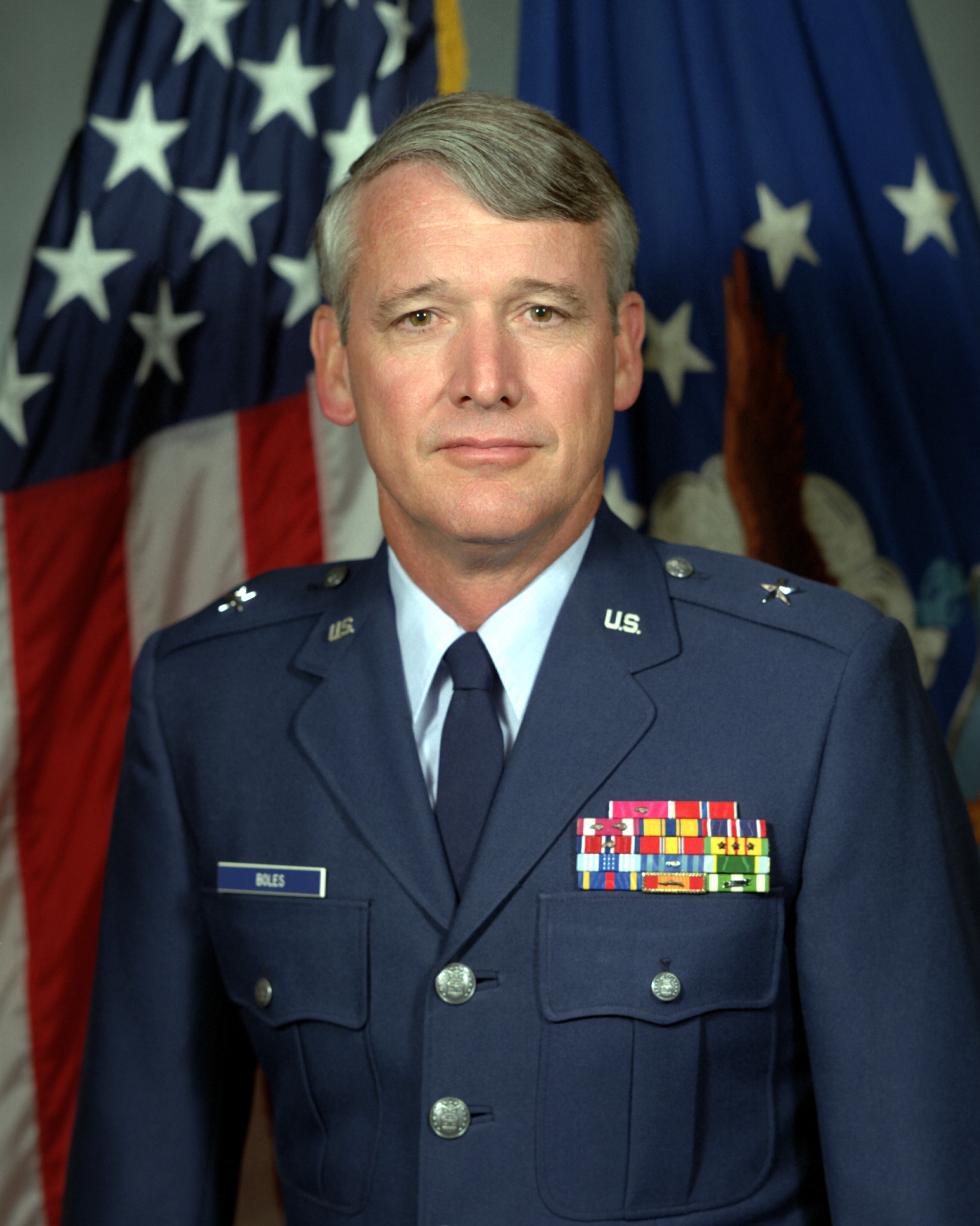 Brig. Gen. Billy J. Boles, USAF (uncovered)